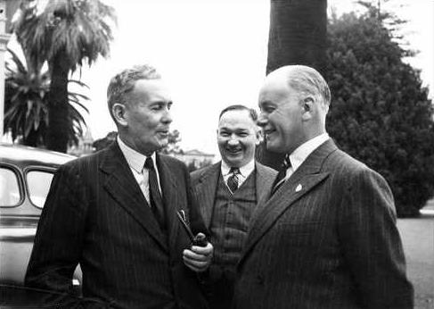 Photograph of Charles Norrie, Ben Chifley and Thomas Playford IV, taken in 1946.